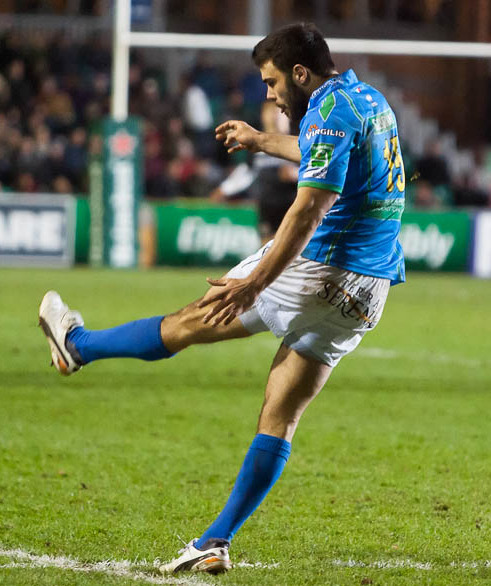 Leicester Tigers vs Benetton Treviso in a Heineken Cup Pool Game at Welford Road, Leicester, England